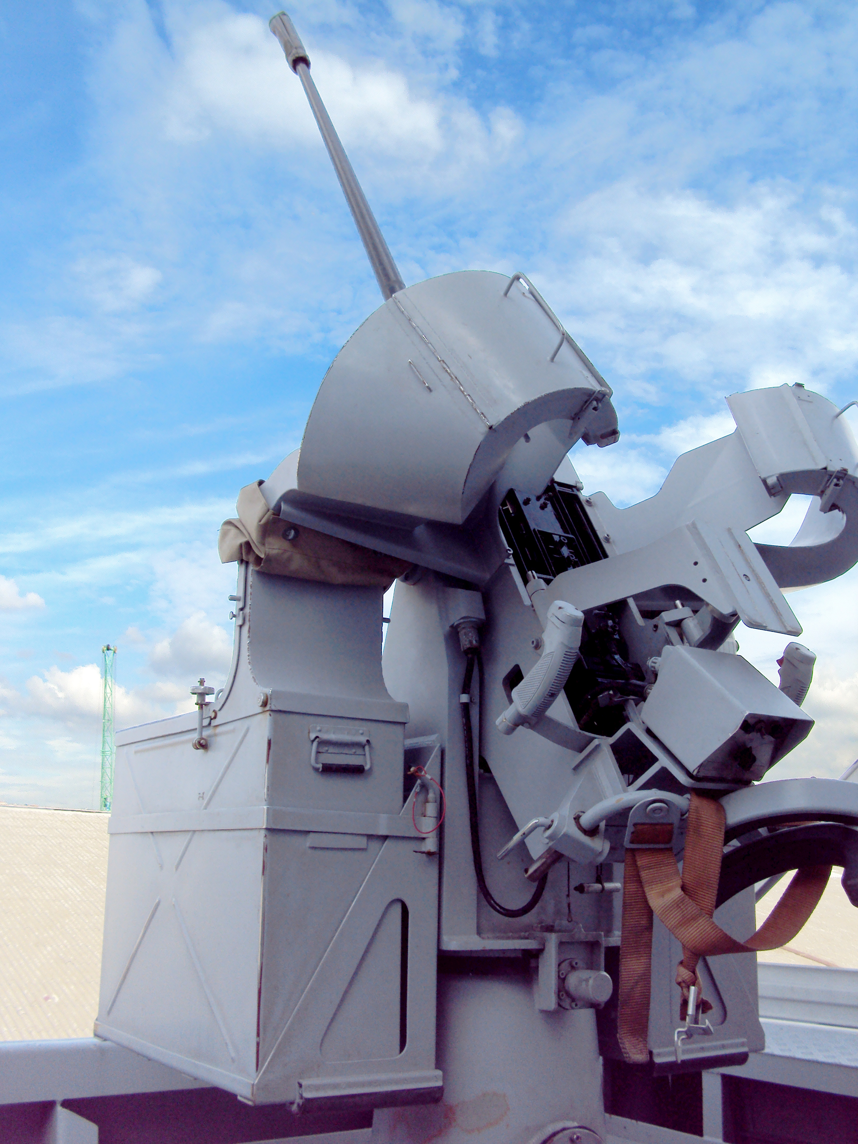 20 mm modèle F2 gun aboard Forbin